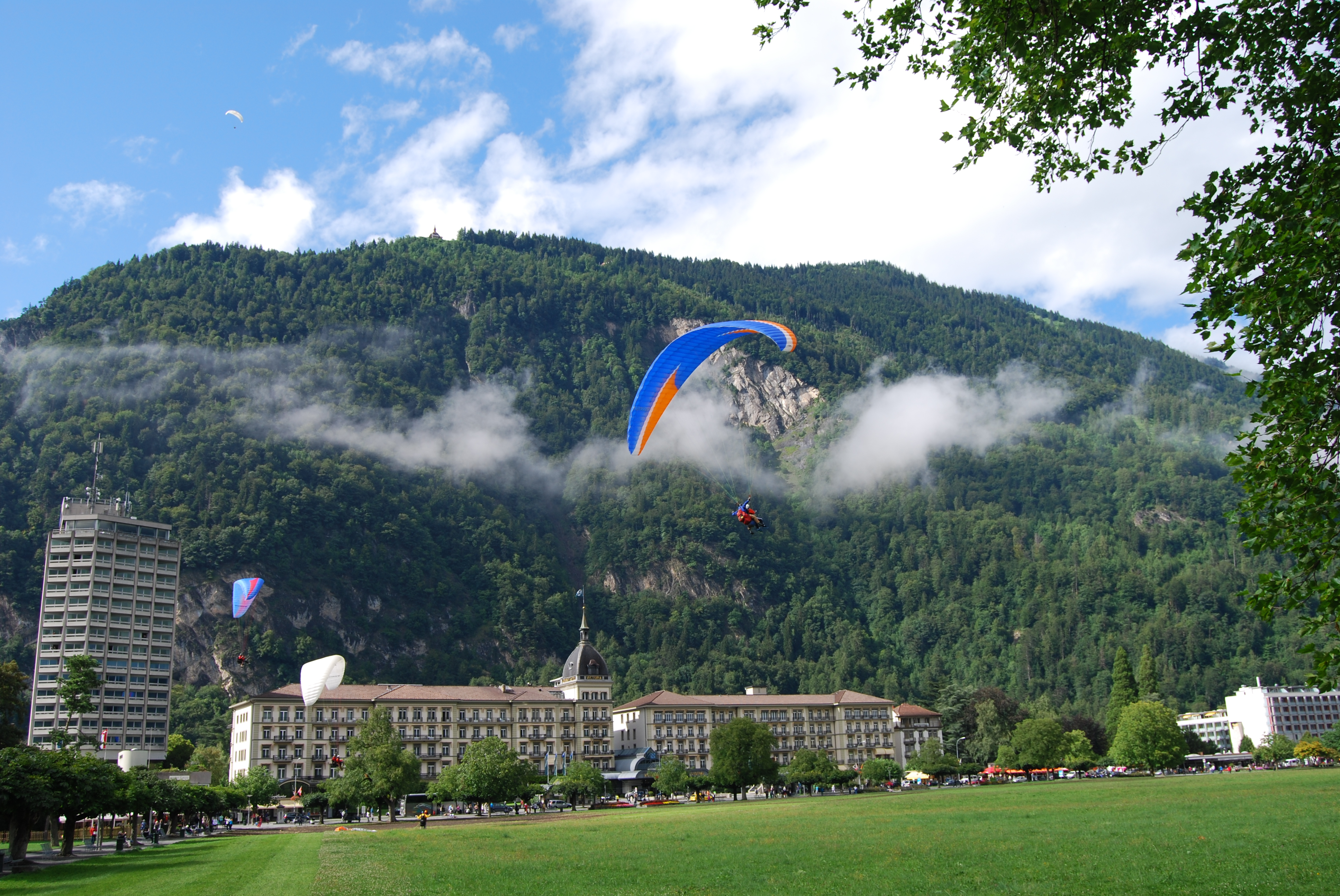 Hotel Victoria-Jungfrau at Interlaken, canton of Bern, Switzerland